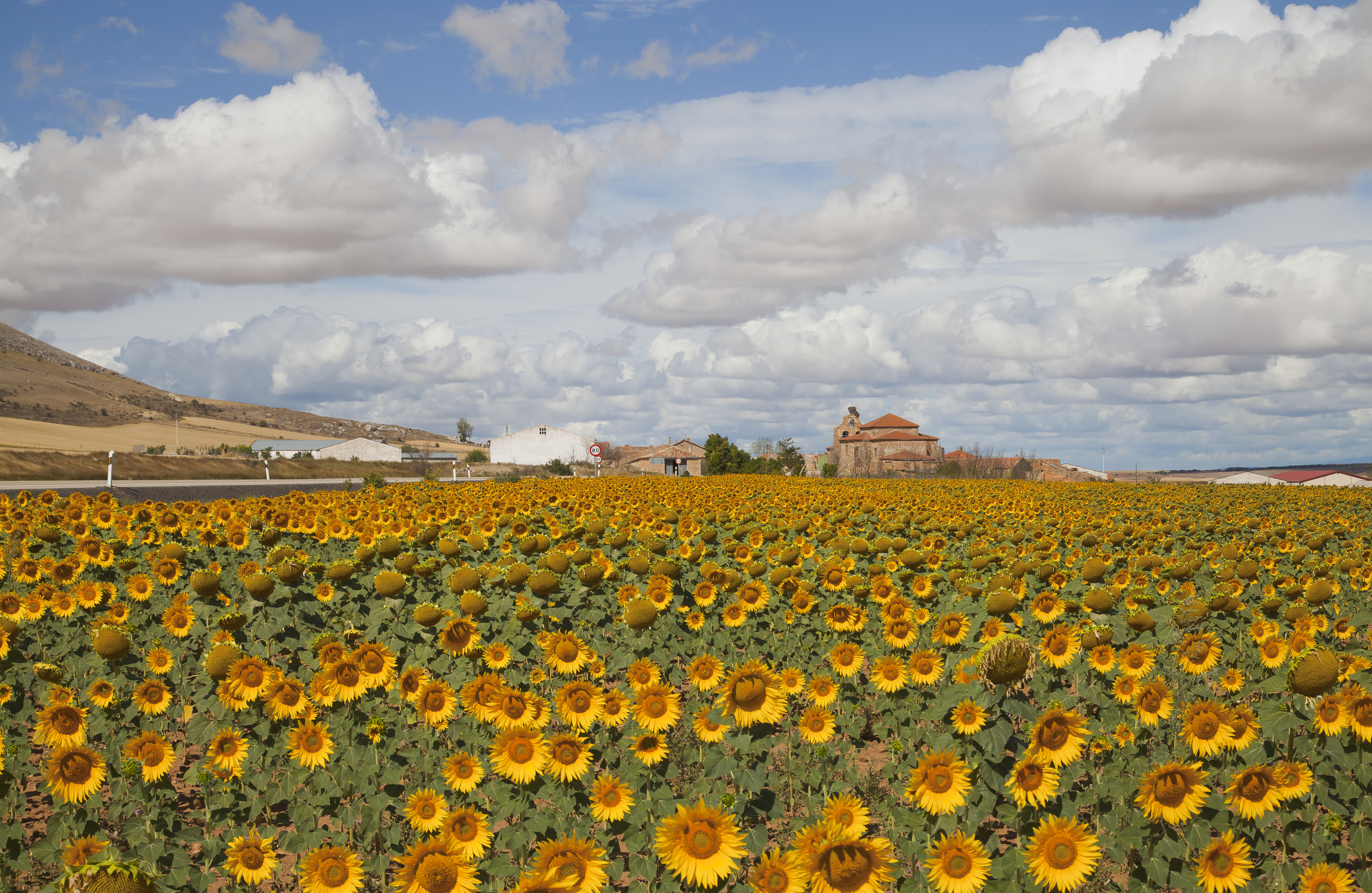 Field of sunflowers (Helianthus annuus) with the church of Nuestra Señora de La Blanca in the background, Cardejón, SpainEsperanto: Sunflora kamparo (Helianthus annuus) antaŭ preĝejo de Nia Sinjorino de la Blanka, en Cardejón, Hispanio